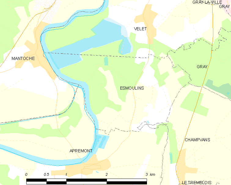 Map of French municipality